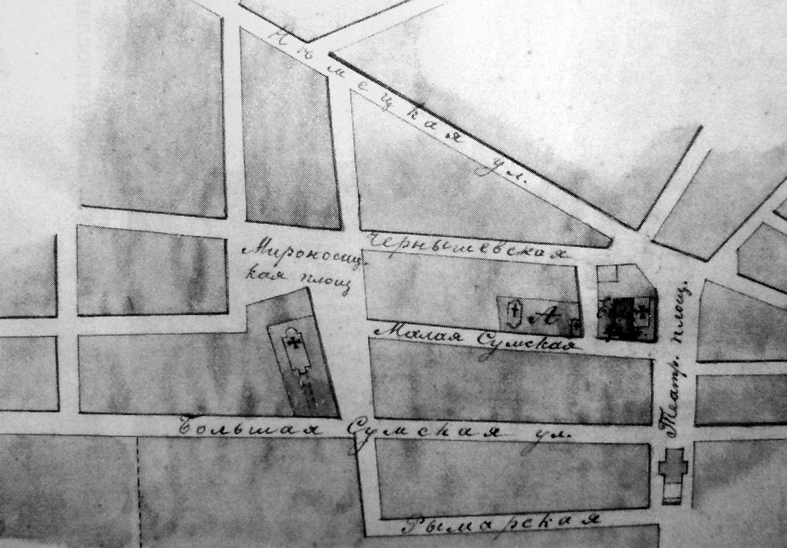 Fragment of old Kharkov map